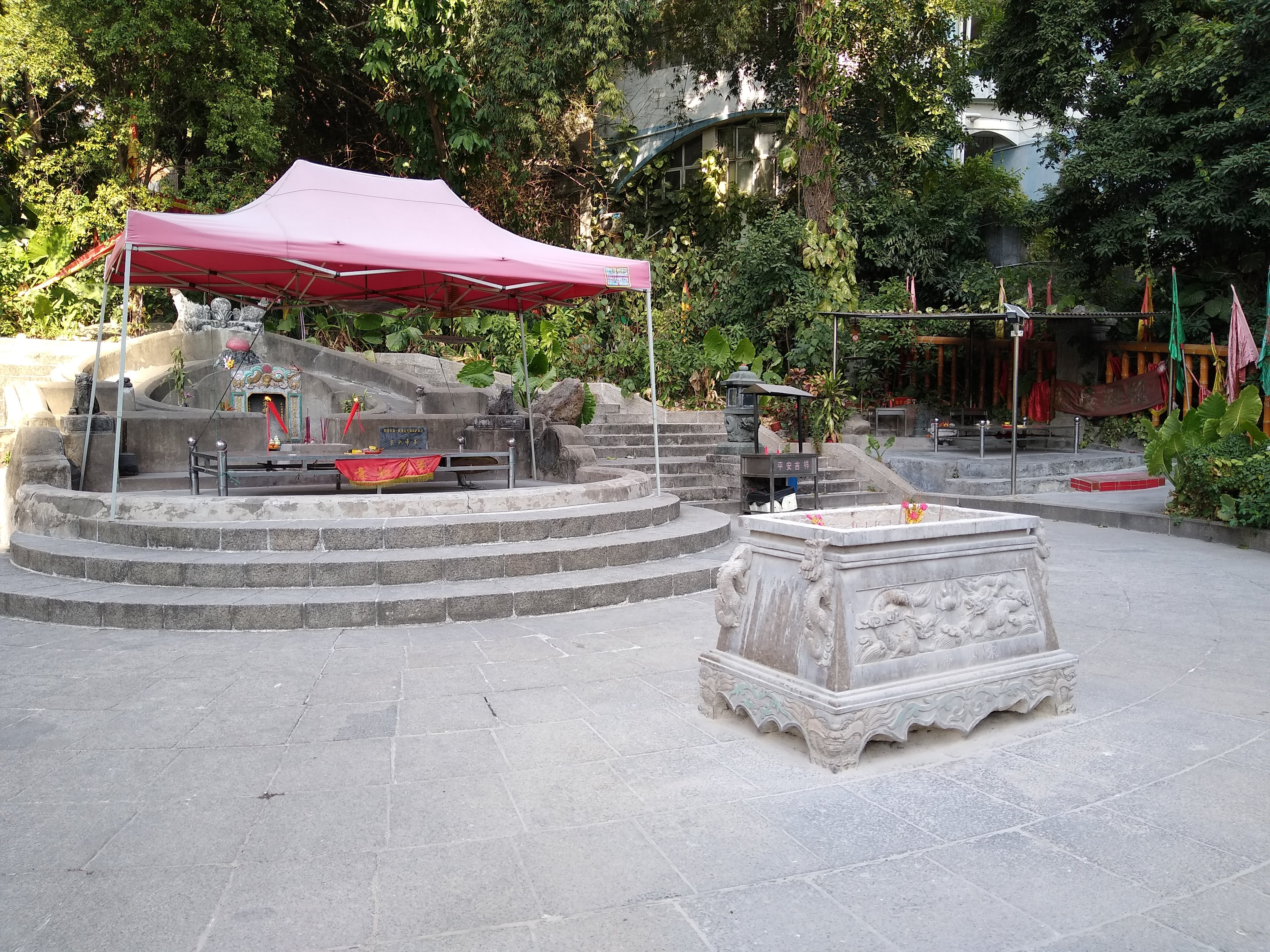 Tomb of Zhao Bing (赵昺), last emperor of the Song Dynasty, in Chiwan, Shenzhen, China.